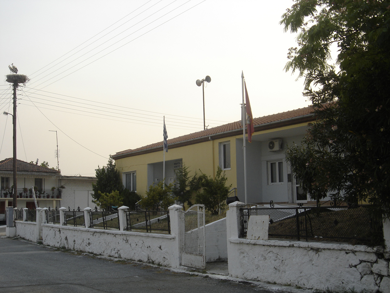 The building of former community of Alonia.